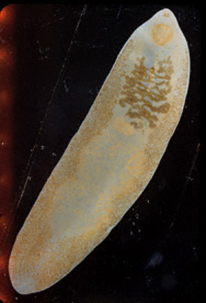 Adult fluke of F. buski.